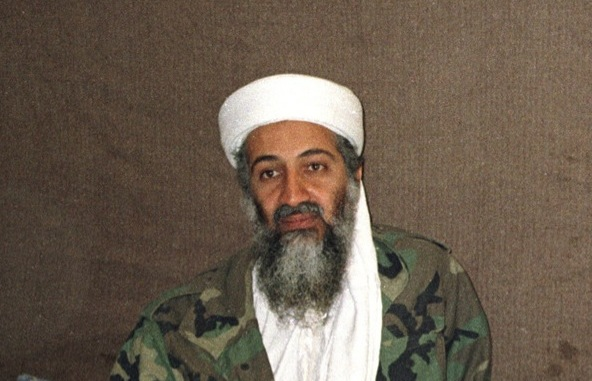 Osama bin Laden sits with his adviser Dr. Ayman al-Zawahiri during an interview with Pakistani journalist Hamid Mir. Hamid Mir took this picture during his third and last interview with Osama bin Laden in November 2001 in Kabul. Dr.Ayman al-Zawahri was present in this interview and acted as the translator of Osama bin Laden.